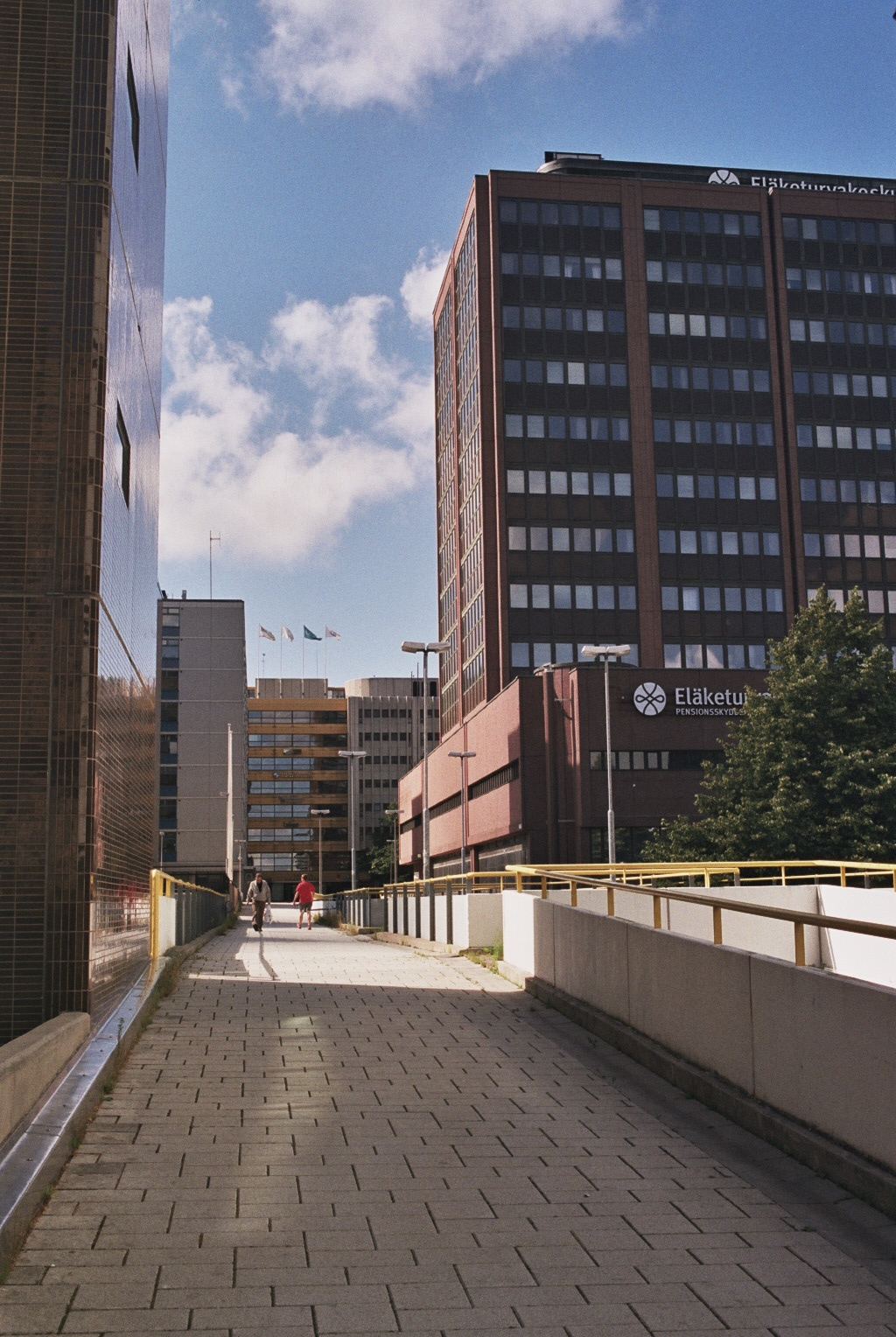 Office buildings in Eastern Pasila, Helsinki, Finland.